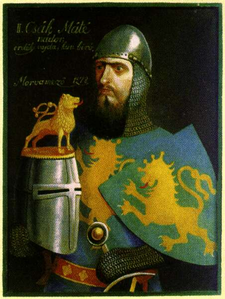 Hungarian noble Matthew II Csák (13th century)